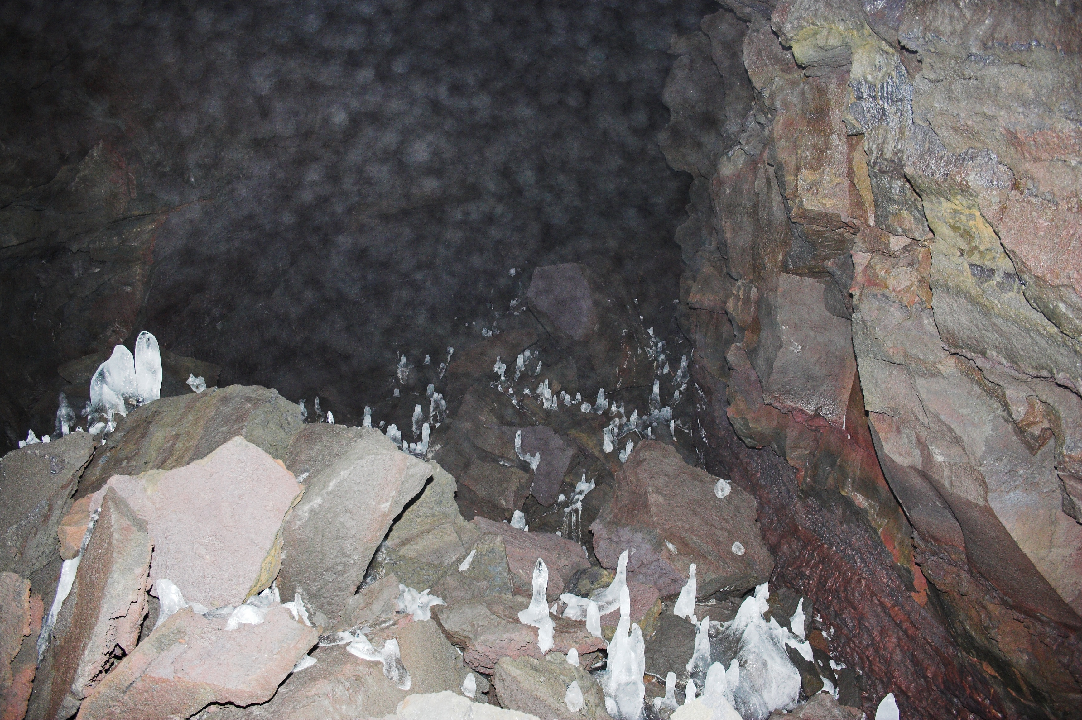 Víðgelmir has beautiful ice formations too.